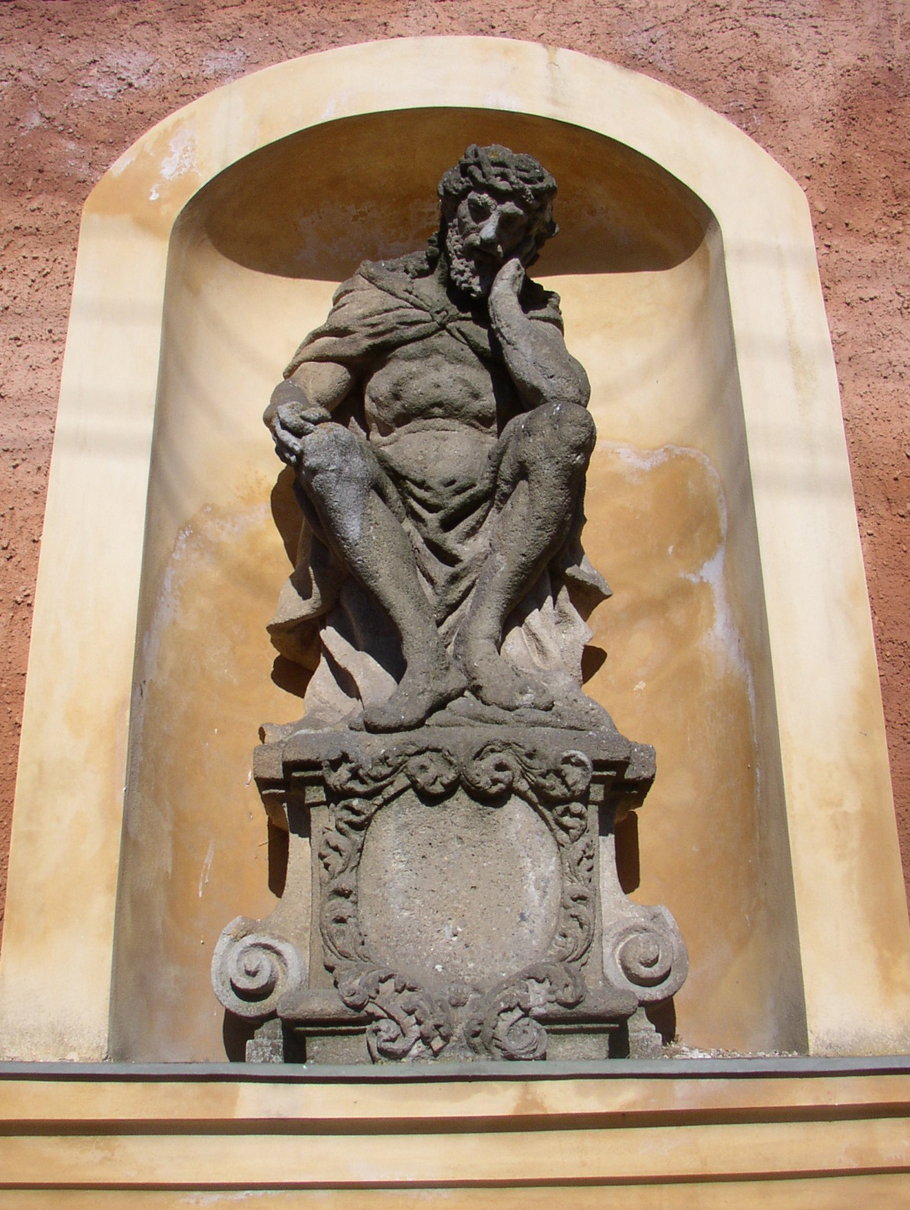 Sculpture of Pensive Christ (c. 1700) in corner of a wall surrounding St Martin church in Tursko, Prague-West District, Czech Republic.